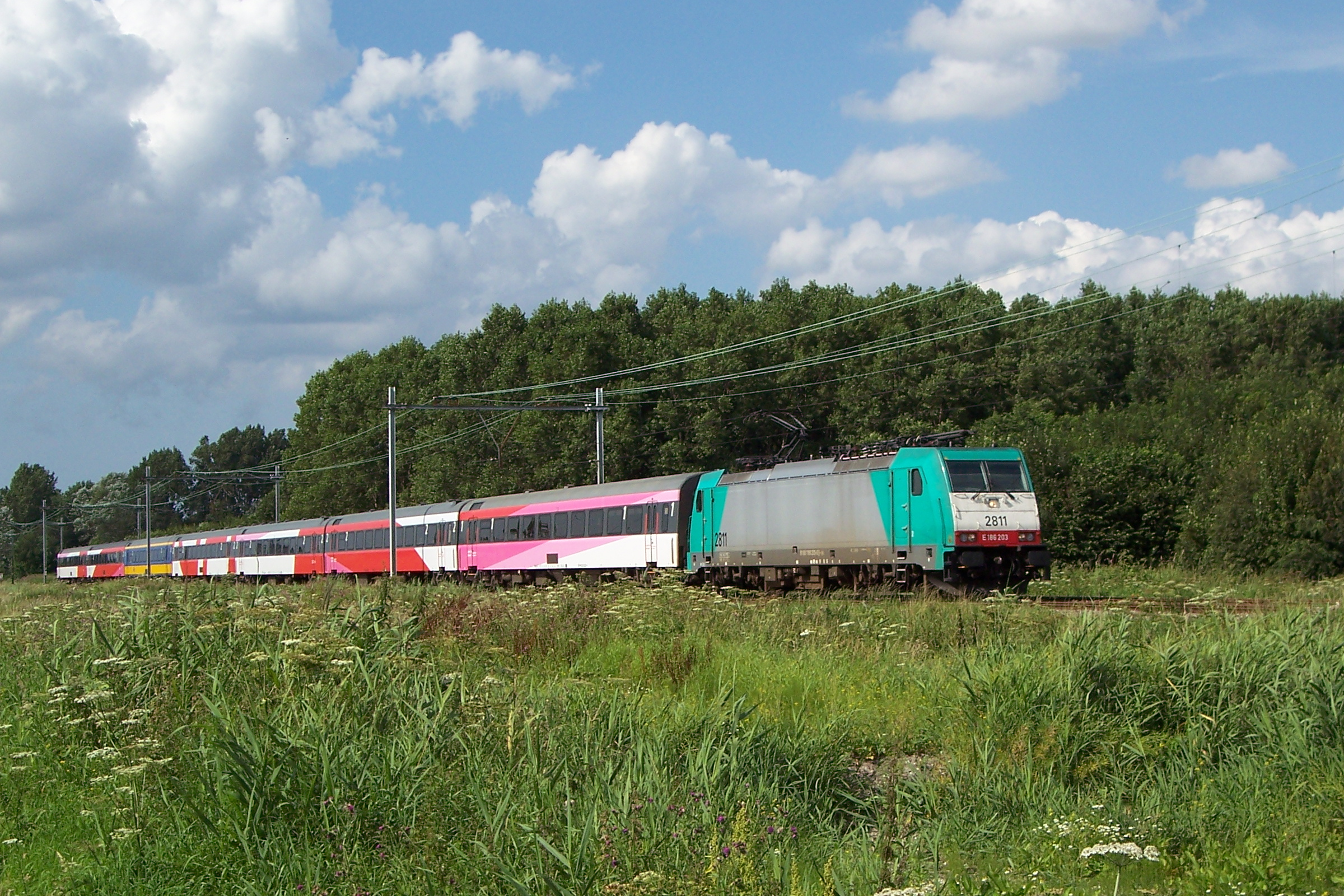 NMBS/SNCB Class 28 TRAXX locomotive with Benelux train underway from Amsterdam to Brussels.